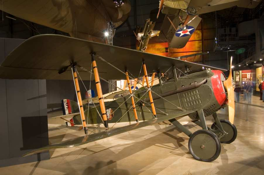 SPAD S.VII at the National Museum of the United States Air Force